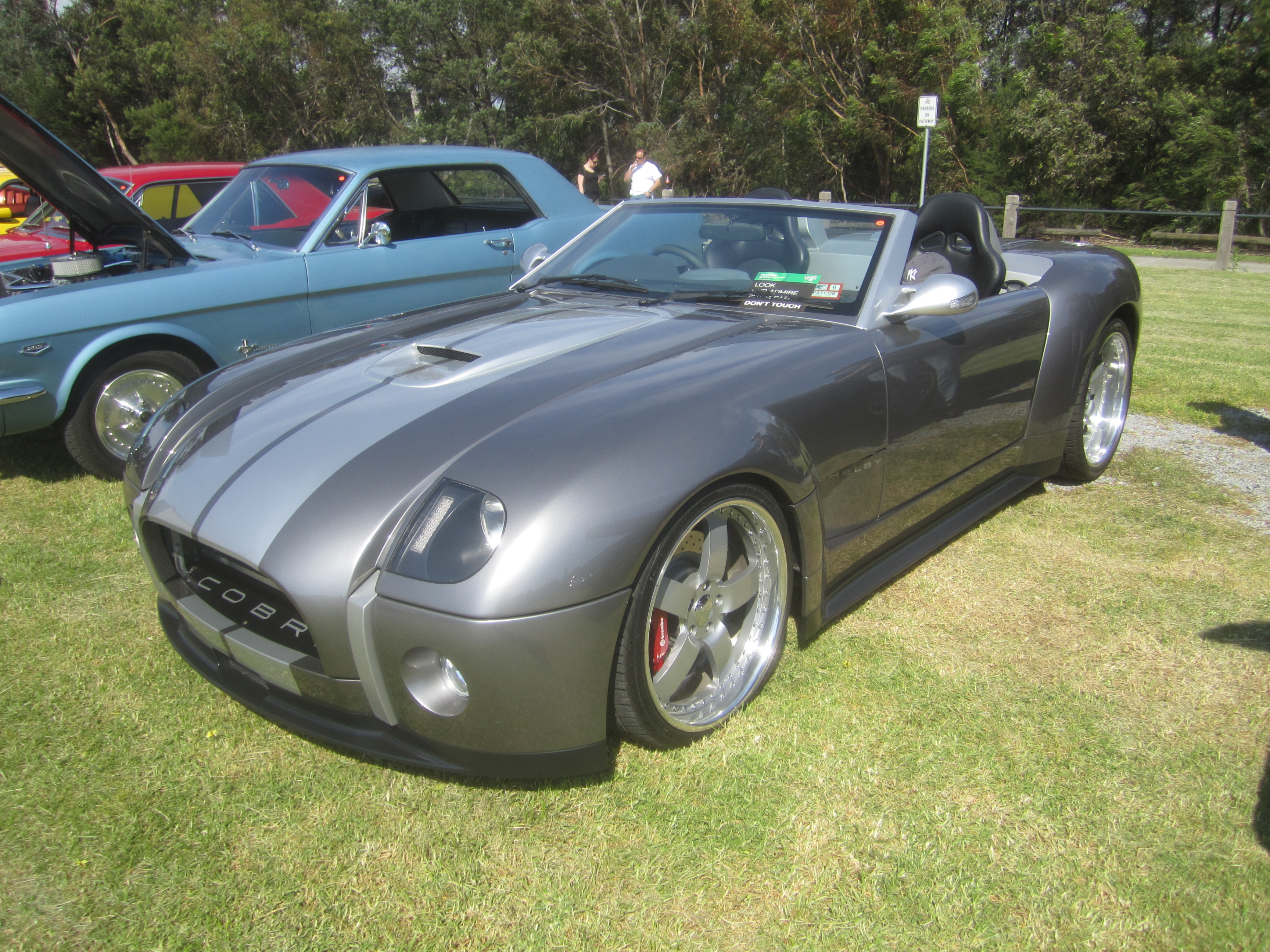 Ford USA produced a prototype of a modern version of the AC Shelby Cobra, Project Daisy, and displayed it at motor shows in USA during 2004. The car was fitted with a 6.8 litre, V10 motor and a rear mounted transaxle and suspension components from the Ford GT. Although the car was well received, possibly due to financial constraints, production of the car did not proceed. The Concept Cobra provided the inspiration for producing a similar looking Cobra Concept Kit Car and it is named the DRB 540. Built by the Australian company DRB Sportscars, they are also the manufactures of AC Cobra, GT40 and D-Type Jaguar replica vehicles. The chassis is supplied with all the mounts to accept BA/BF Falcon 5.4 Boss engine, transmission, front and rear suspension, steering rack, radiator, steering column, pedal box, brake booster and master cylinder.